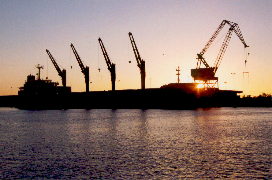 "Big Arthur" crane unloading ship. Port Arthur, Texas.